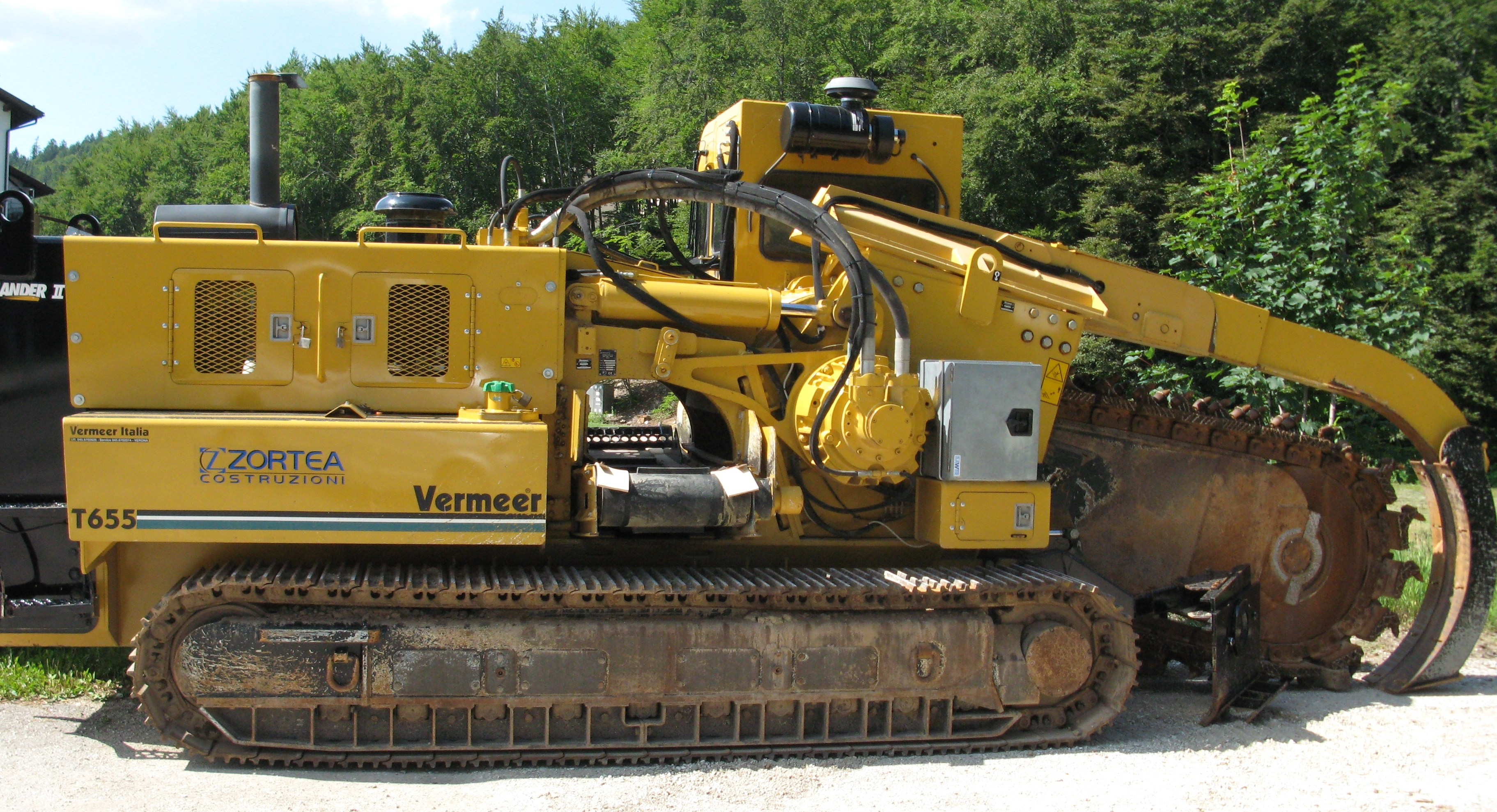 Vermeer T655 trencher Zortea